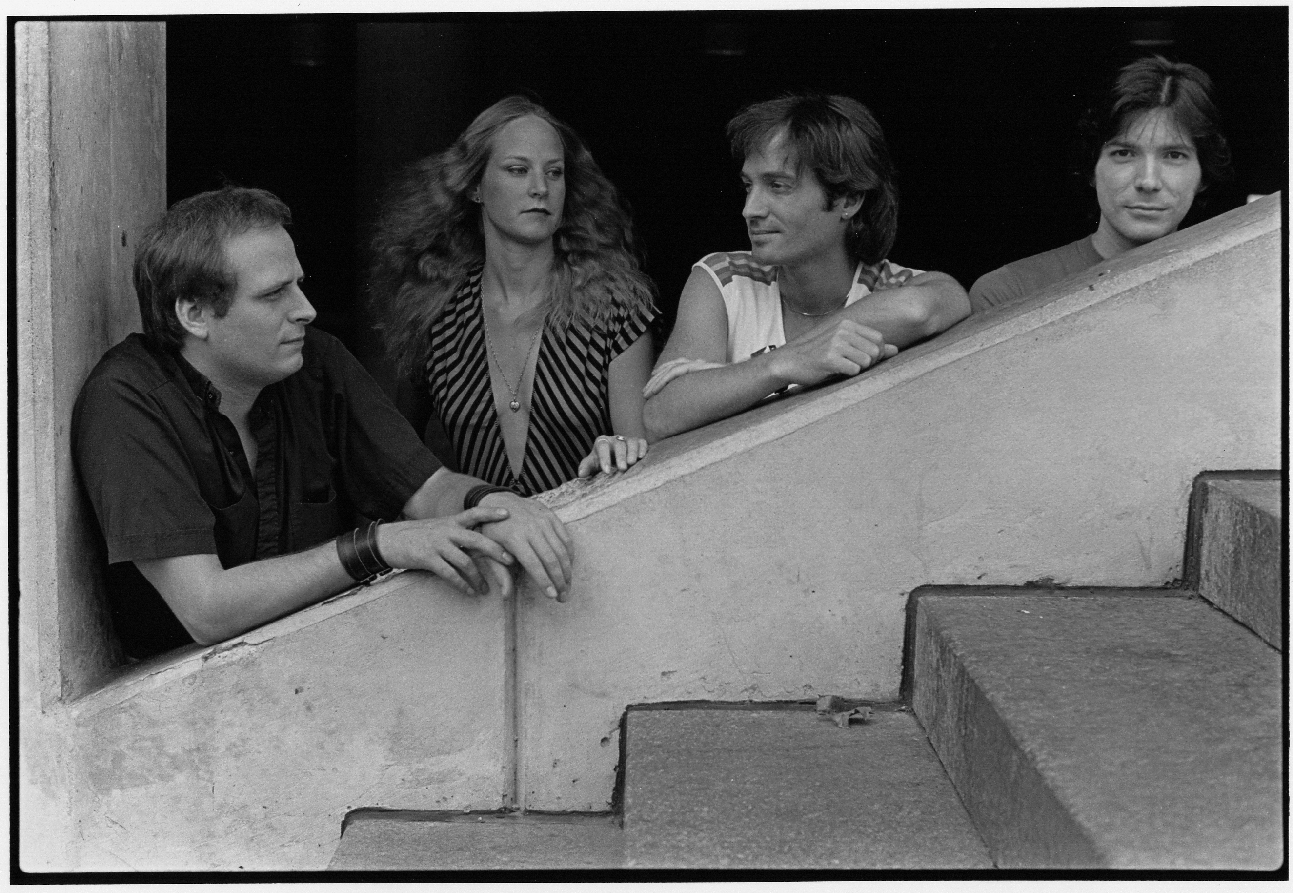 Publicity shot from 1982, at the Civic Center in Detroit, Michigan.